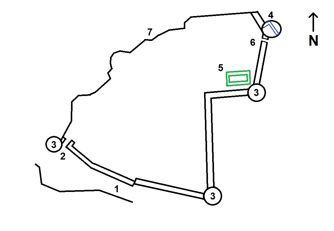 Plan of Acropolis of Kazarma: 1 = ramp, 2 = main gate, 3 = round towers in polygonal masonry, 4 = round tower in polygonal masonry and rectangular tower, 5 = cistern, 6 = rear gate, 7 = weak wall